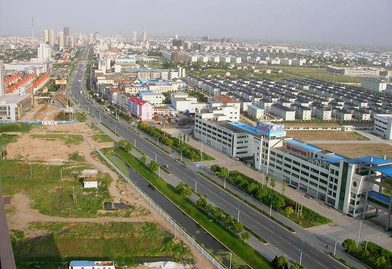 looking southeast at the city of Qidong (启东) in Jiangsu Province, China from the roof of the Perfect International Hotel, 1888 West Renmin Road (Renmin Xi Lu). Note the downtown area in the upper left of the image.